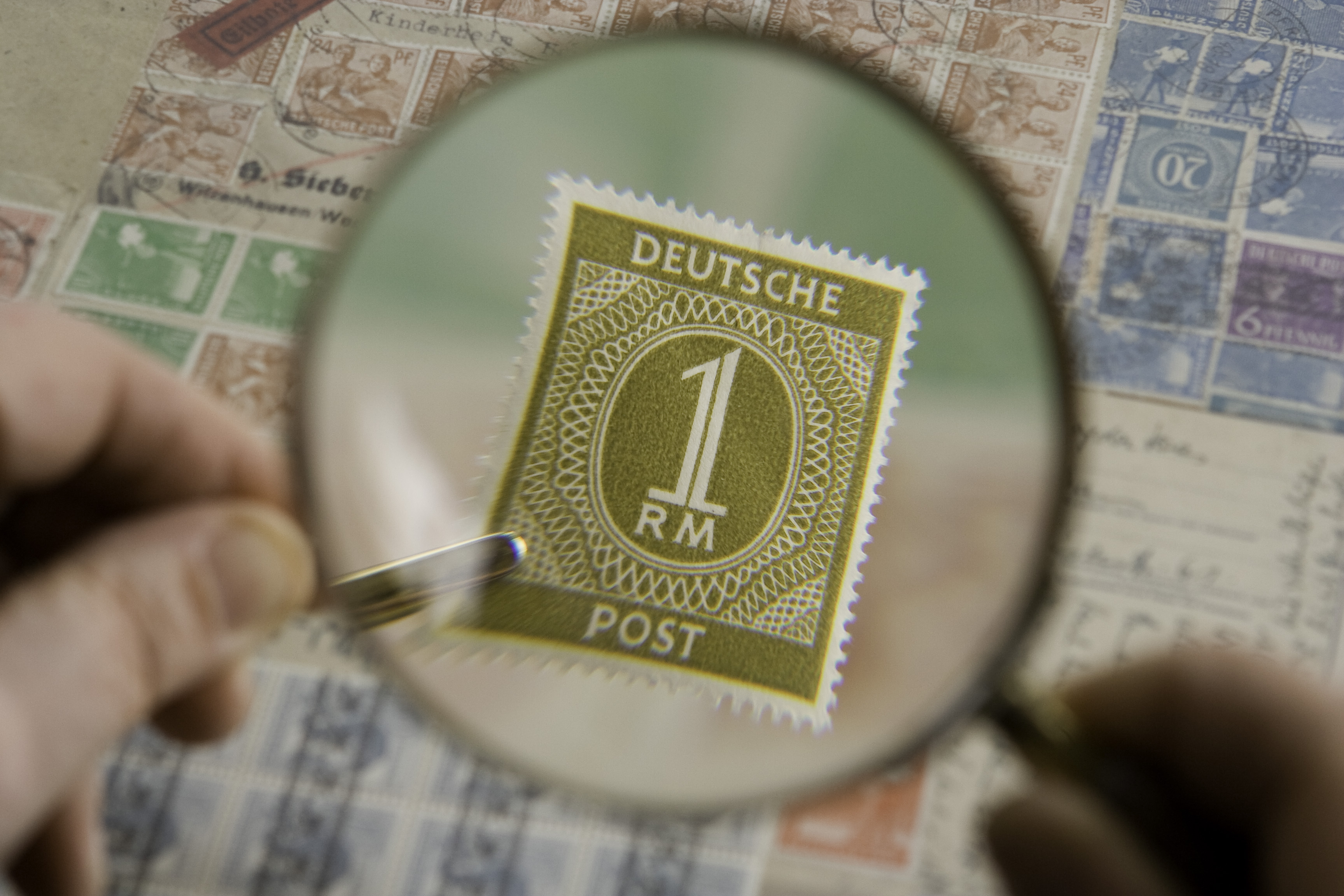 Philately, Magnifying glass shows the magnified image of the Deutsche Post 1 Reichsmark postage stamp issued on May 12 1946.